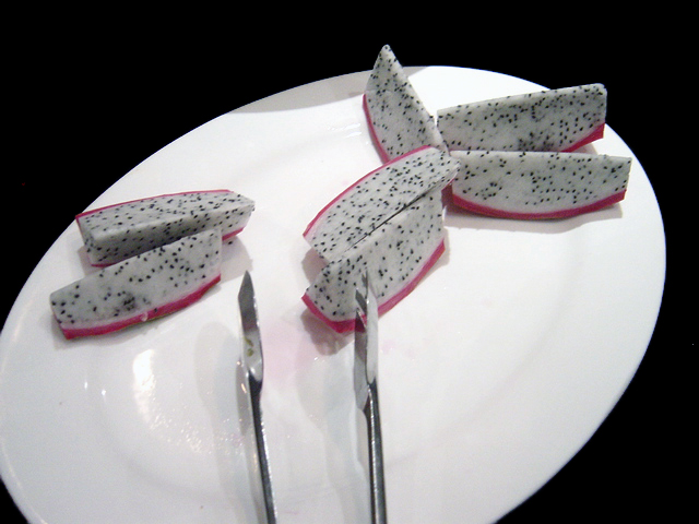 Dragon fruit, a pitaya of the Hylocereus genus, served in a buffet in China.